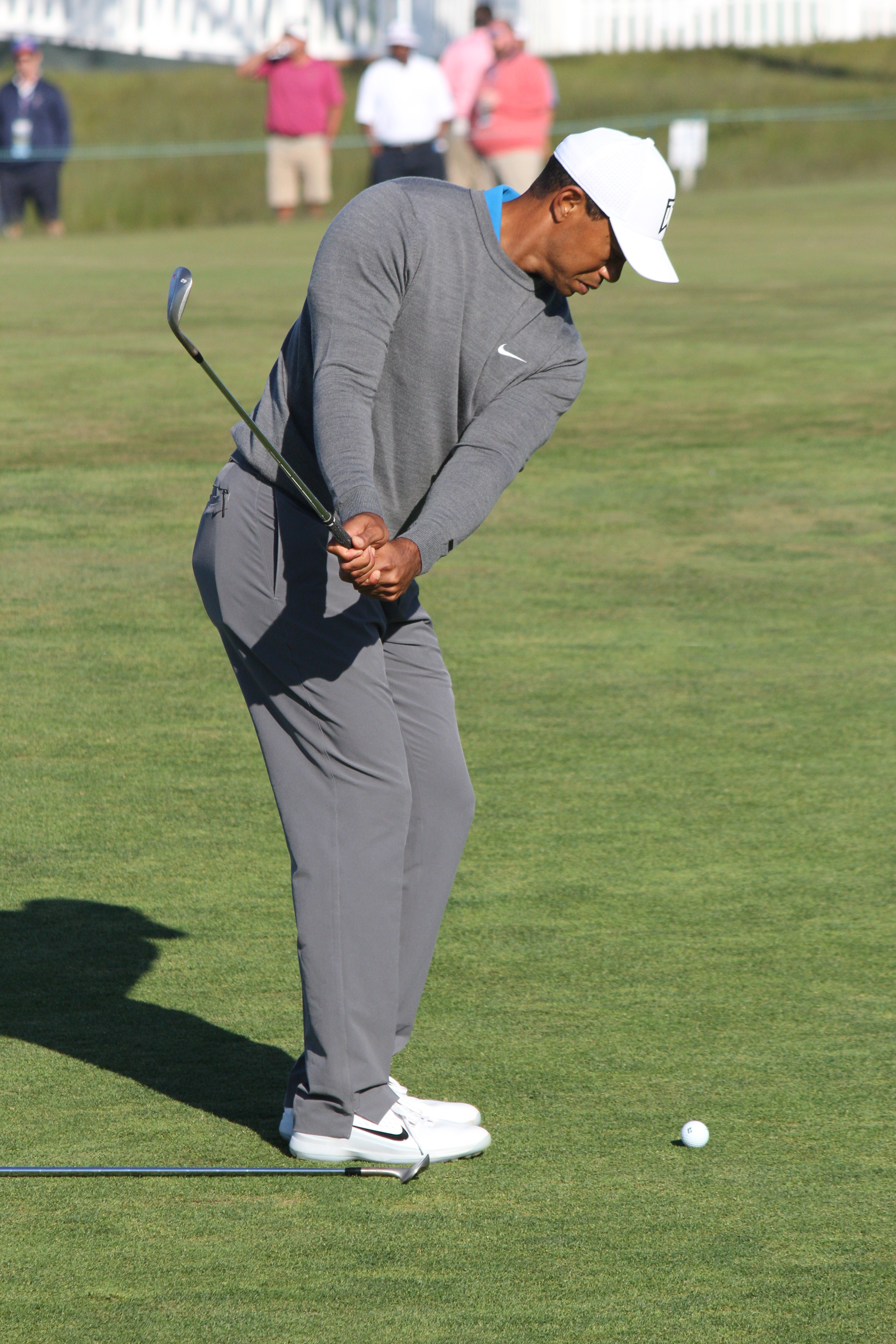 Tiger Woods at the 2018 US Open